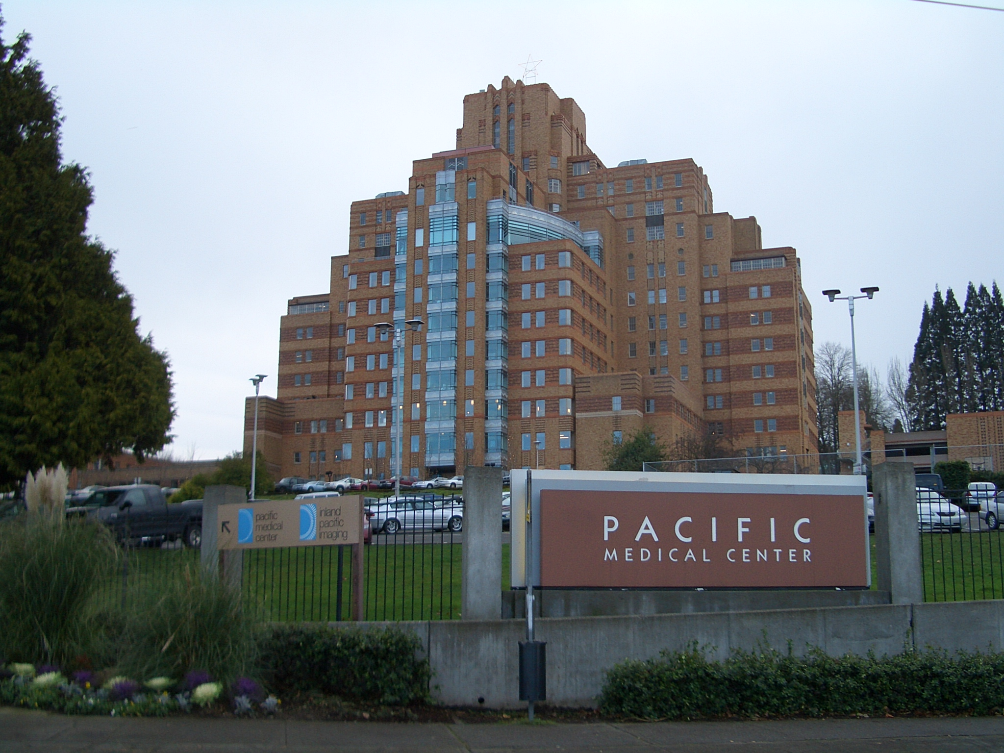 Pacific Medical Center (PacMed) building, stands at the northern end of Seattle's Beacon Hill. Since 1999, The core of the building is the U.S. Marine Hospital, listed on the National Register of Historic Places; the north wing (thrusting forward in this picture) is newer.